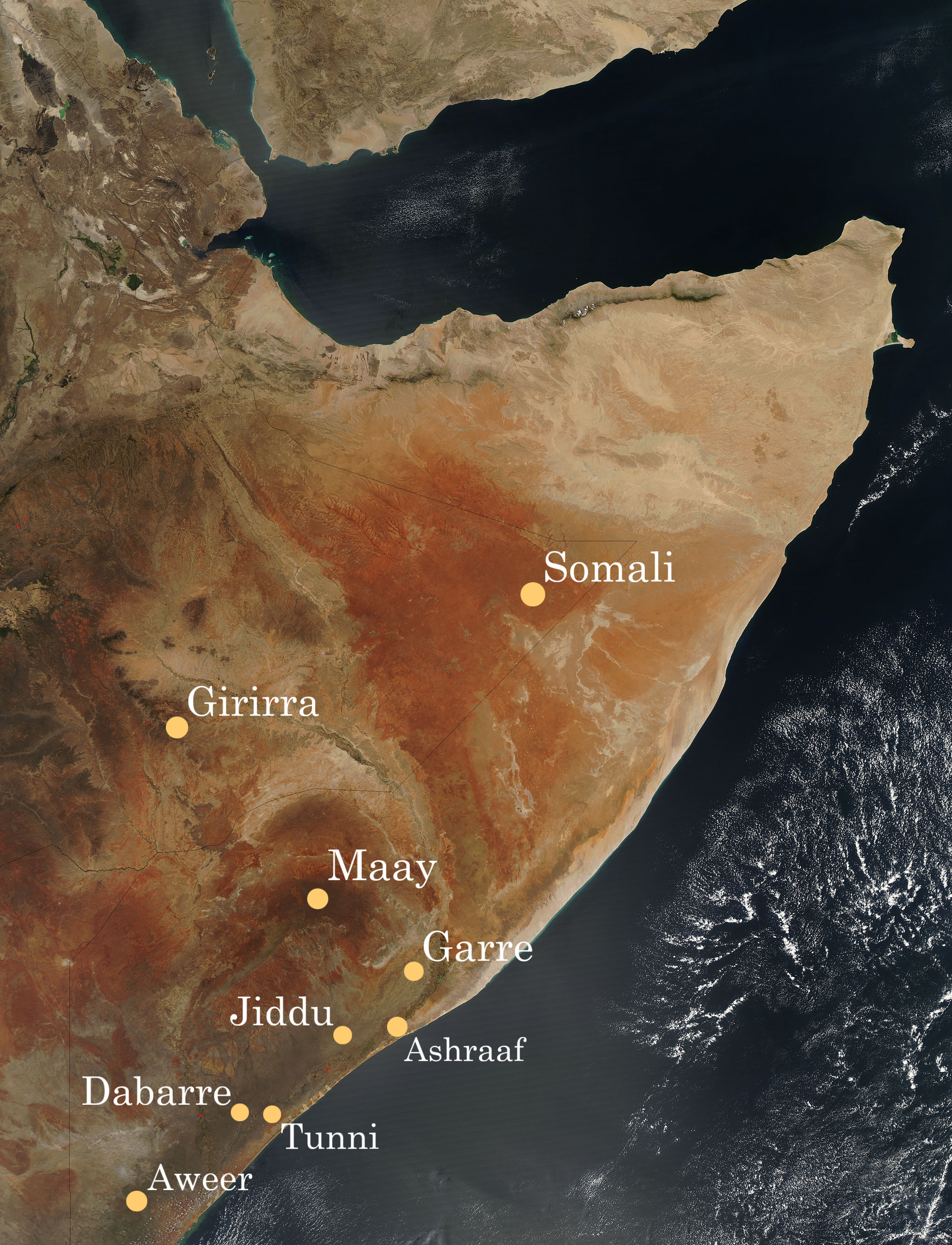 {"effects_tried":0,"photos_added":0,"origin":"gallery","total_effects_actions":0,"remix_data":["add_sticker"],"tools_used":{"tilt_shift":0,"resize":0,"adjust":0,"curves":0,"motion":0,"perspective":0,"clone":0,"crop":0,"enhance":0,"selection":0,"free_crop":0,"flip_rotate":0,"shape_crop":0,"stretch":0},"total_draw_actions":0,"total_editor_actions":{"border":0,"frame":0,"mask":0,"lensflare":0,"clipart":0,"text":0,"square_fit":0,"shape_mask":0,"callout":0},"total_editor_time":651,"brushes_used":0,"total_draw_time":0,"effects_applied":0,"uid":"6FCC13BF-760E-4DE0-B359-147855F9E46A_1577299554337","total_effects_time":0,"source_sid":"6FCC13BF-760E-4DE0-B359-147855F9E46A_1577299554350","sources":["296931617009211"],"layers_used":0,"width":2600,"height":3400,"subsource":"done_button"}